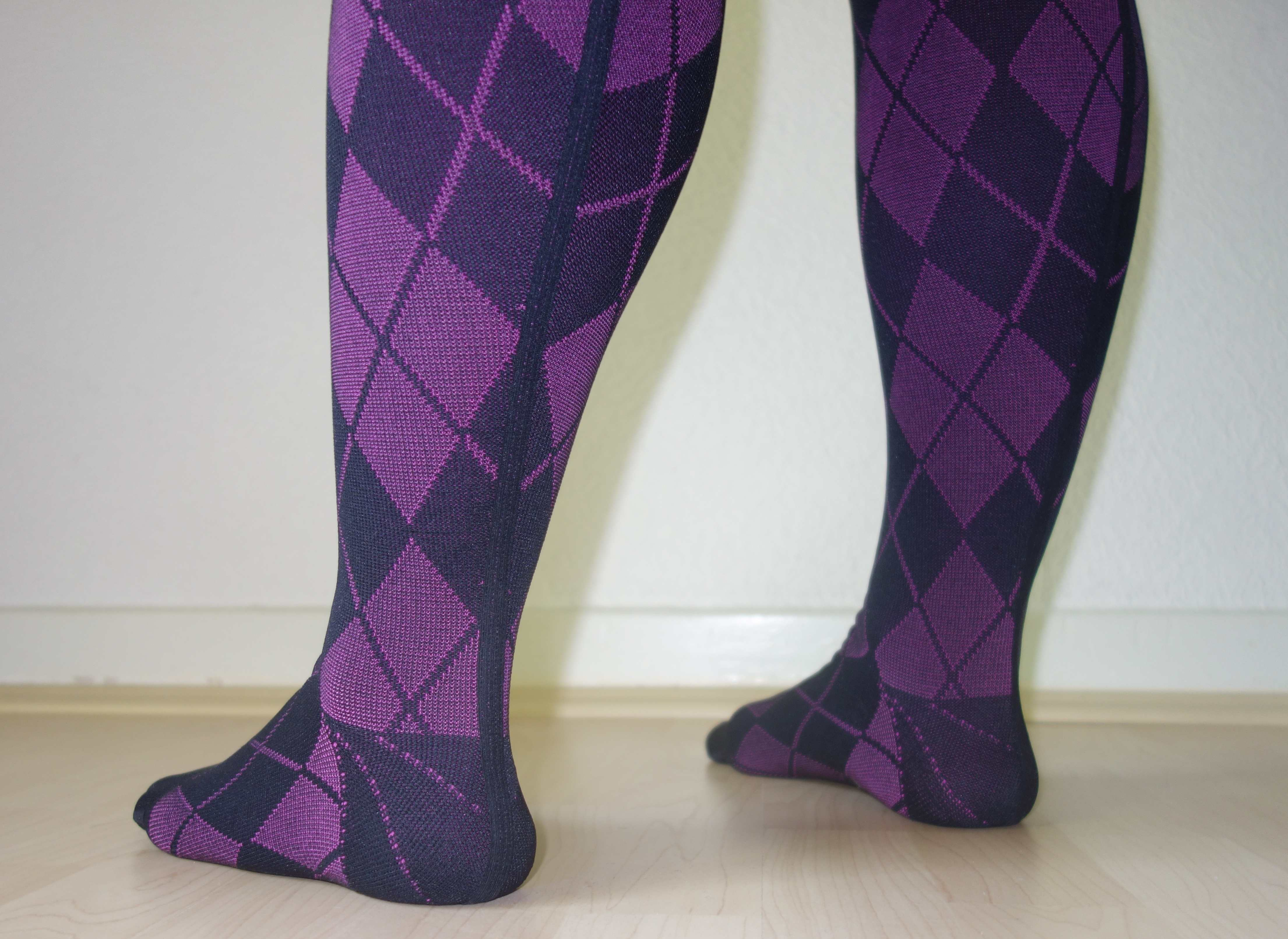 Compression Stockings for Compression therapy